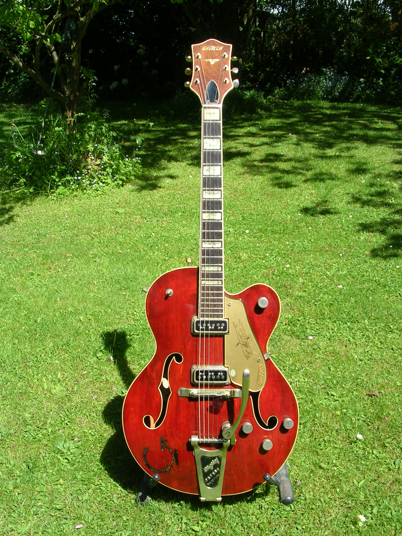 Gretsch 6120 G-Brand 1955